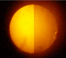 biparted field in a polarimeter eyepiece